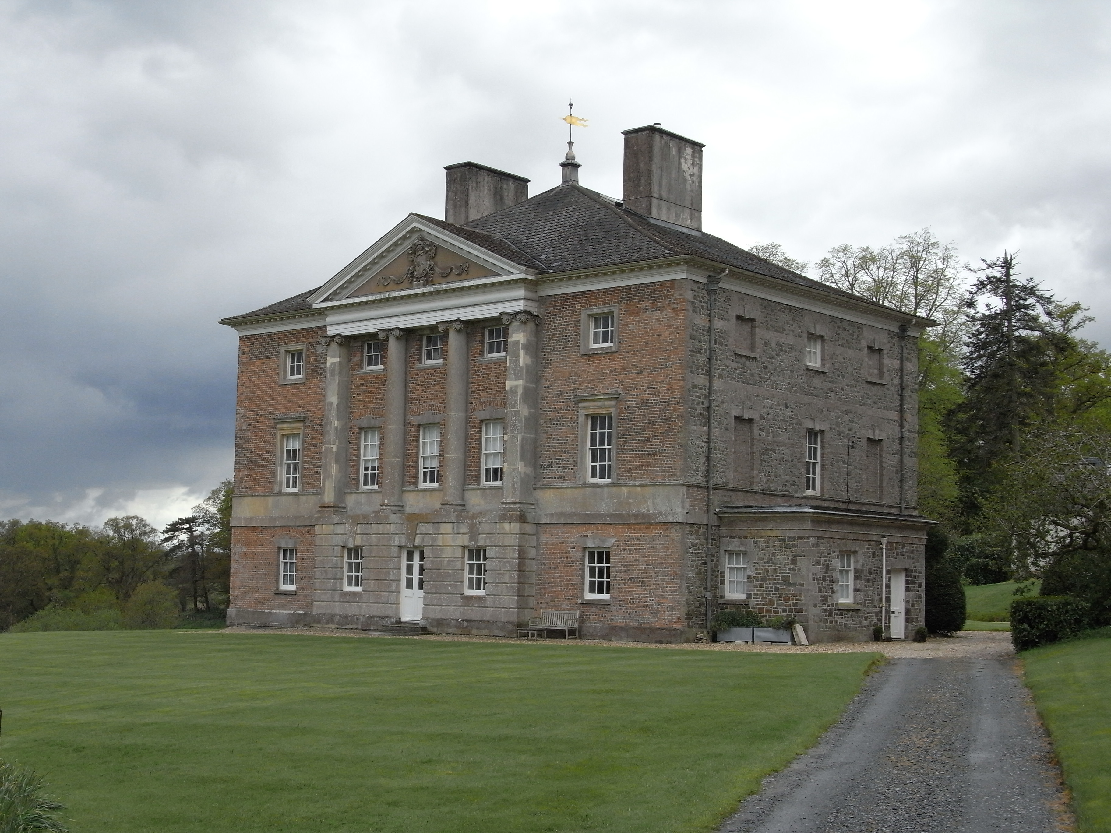 Kings Nympton Park, Kings Nympton, North Devon